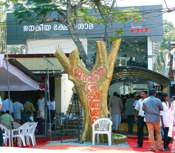 Janakeeya Bhakshanasala Alappuzha is a people's initiative to serve food to even those who have no money for food.